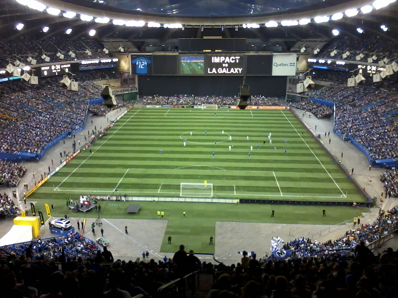 A match of football of Montreal Impact at the Oympic Stadium of Montreal.